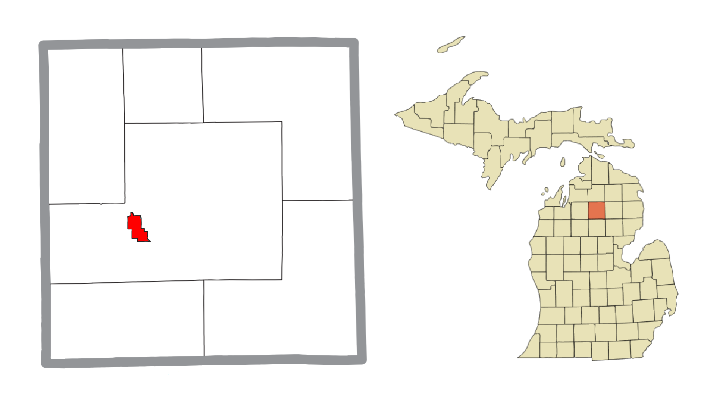 Grayling, MI